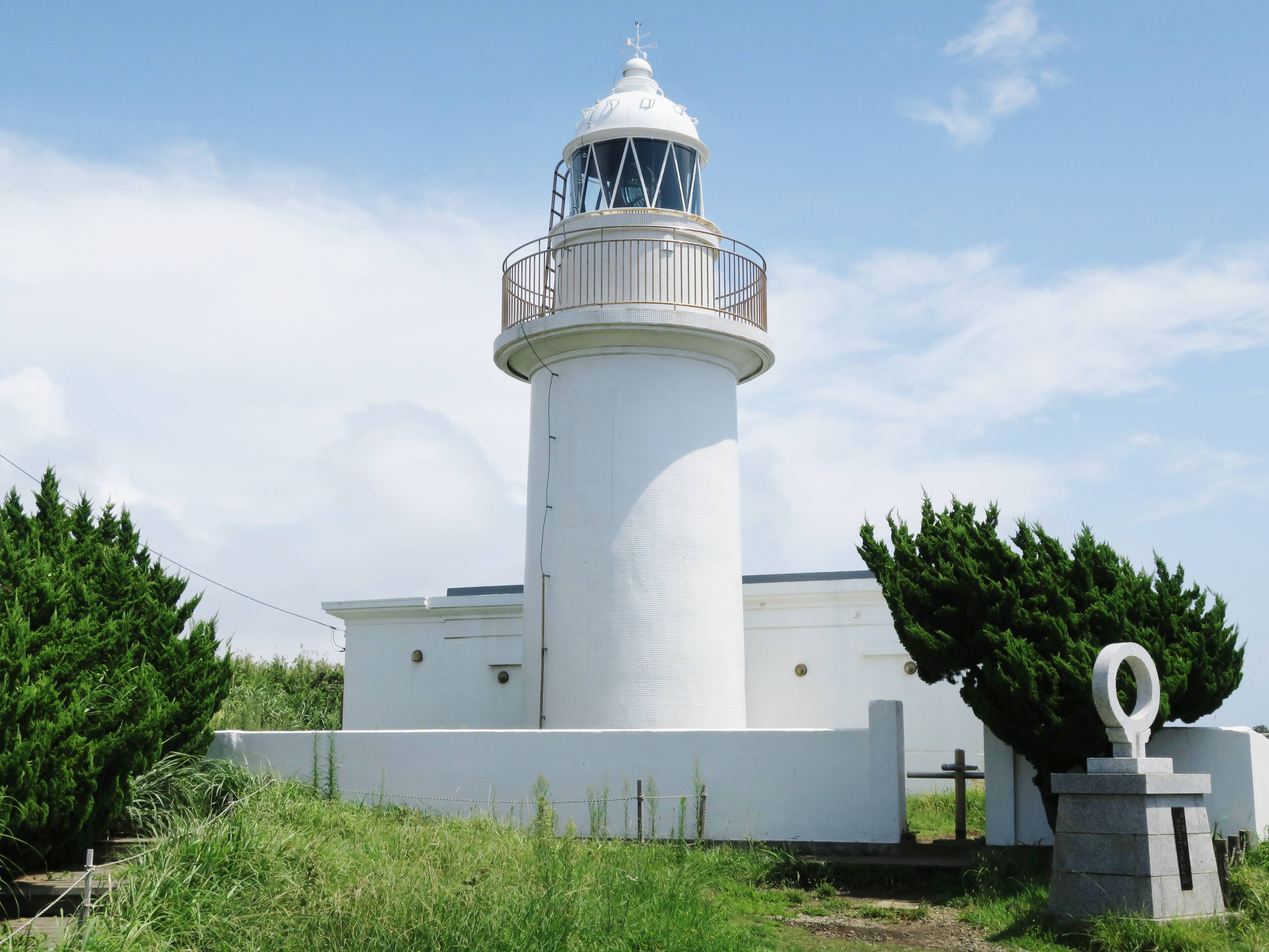 Jōgashima Lighthouse.